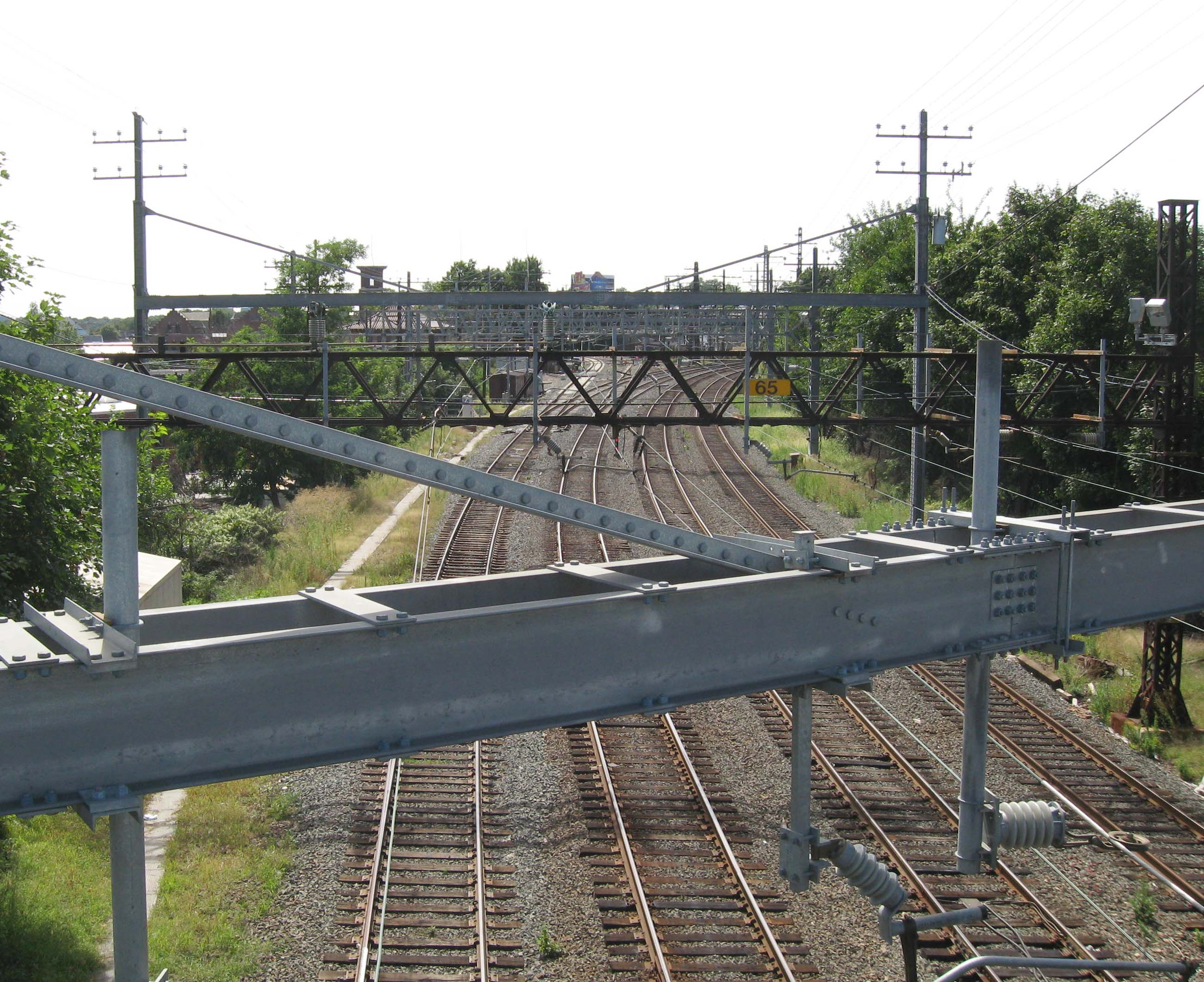 Looking southwest from the Centre Avenue overpass immediately south of New Rochelle Station, at the track wye of Amtrak and the NH Line of Metro-North Railroad on a sunny midday